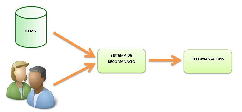 a sketch of a recommenation system